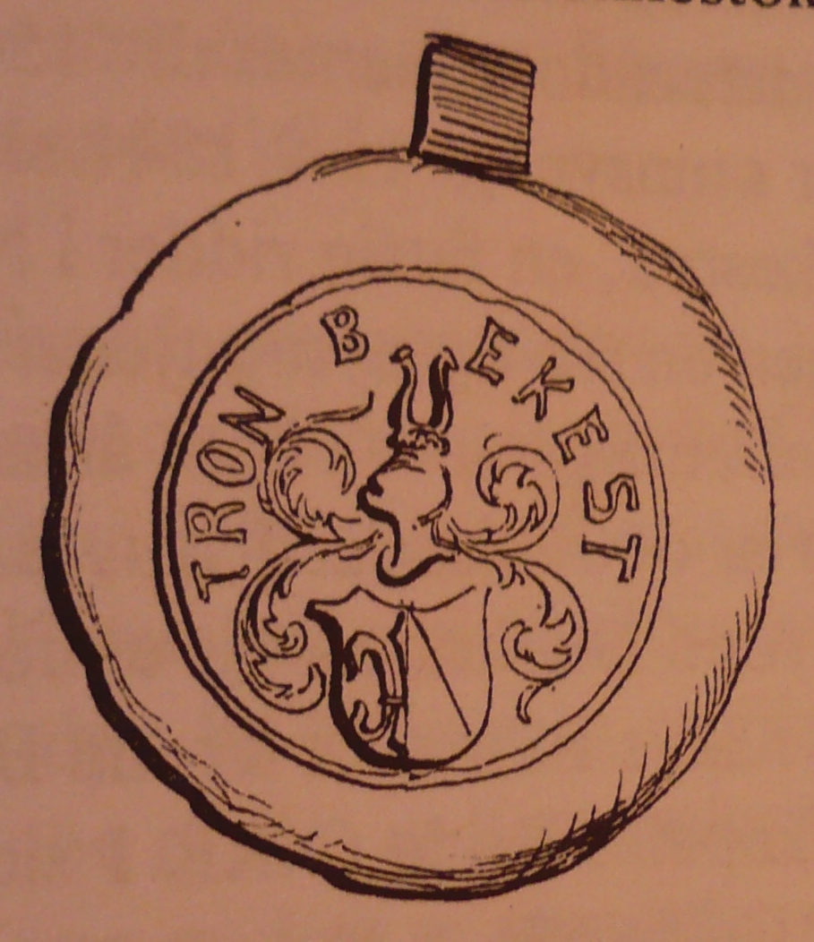 Arms of heraldic Trond Benkestokk in Norway 14. july 1534